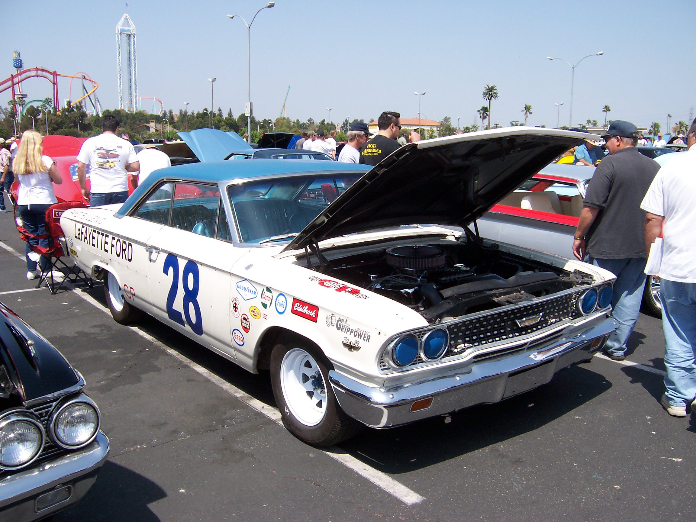 1963 Ford Galaxie race car. This looks like Fred Lorenzen's LaFayette Ford #28 Holman-Moody NASCAR racer, but I'm not sure if it's the real thing or a replica. This car is a fake. The #28 is wrong. It has a back seat. No roll bars. It has door handles. You can still see the holes were the trim was removed. I don't see a blue mark to show where to place the jack. The wheels are way wrong. It still has headlights instead of sheet metal disks. Many more errors.